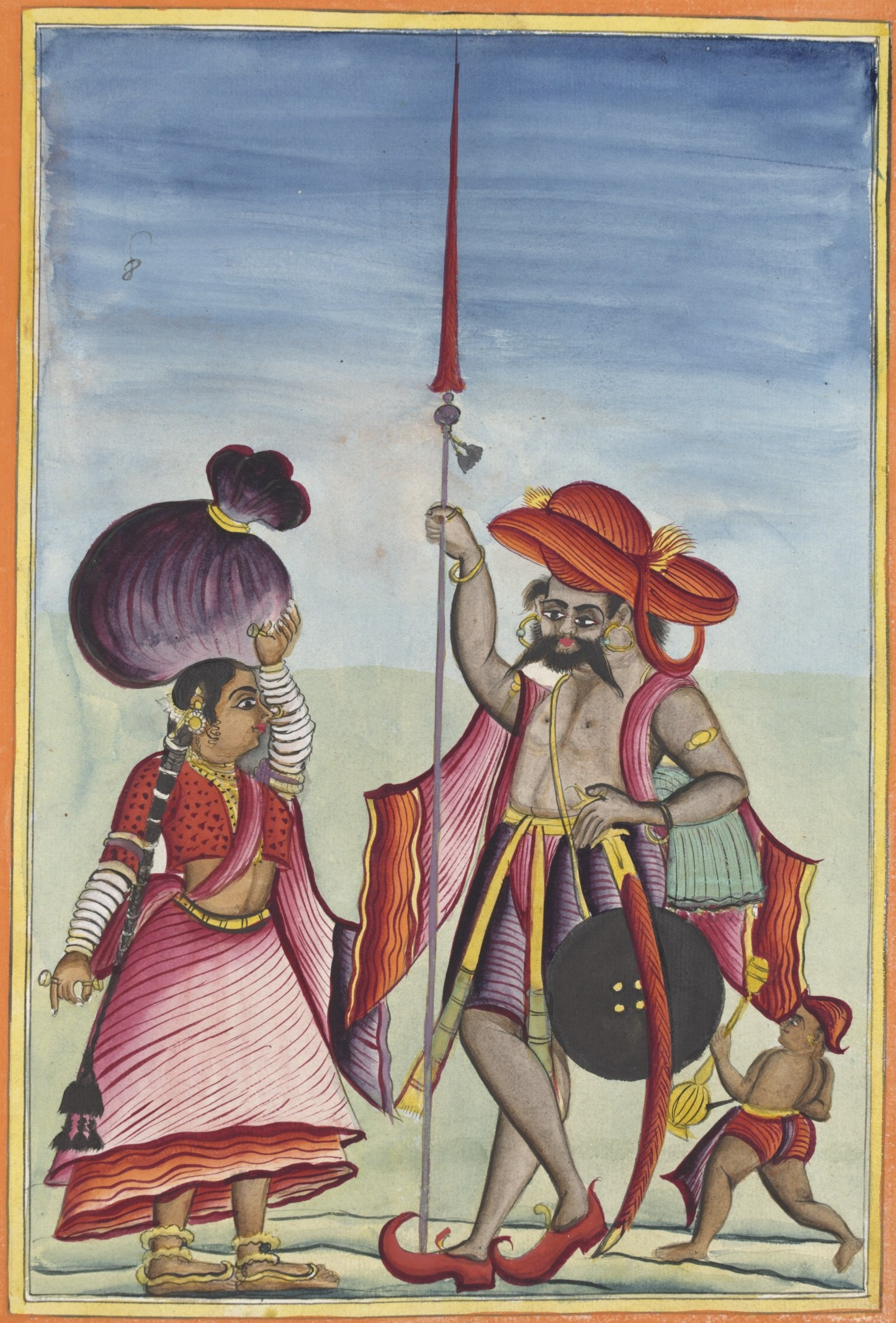 A man with wife and child Object: Painting Place of origin: Madras, India (made) Date: ca. 1785 (painted) Artist/Maker: Unknown (production) Materials and Techniques: Opaque watercolour on paper Museum number: IS.75:8-1954 Gallery location: In Storage Physical description A man of the warrior caste with wife and child. The man holds a spear with sword and buckler at his side. The woman carries a bundle, the child a huqqa. Place of Origin Madras, India (made) Date ca. 1785 (painted) Artist/maker Unknown (production) Materials and Techniques Opaque watercolour on paper Marks and inscriptions N8. Lambadey Cast Dimensions Height: 36.8 cm, Width: 27 cm Taken from Arts of India: 1550-1900 Descriptive line Paintings; Watercolour on English paper, A man with wife and child, Madras, ca. 1785 Bibliographic References (Citation, Note/Abstract, NAL no) Archer, Mildred. Company Paintings Indian Paintings of the British period Victoria and Albert Museum Indian Series London: Victoria and Albert Museum, Maplin Publishing, 1992 37 p. ISBN 0944142303 Materials Paper; Watercolour Techniques Painted Categories Paintings; Company paintings Collection code IND